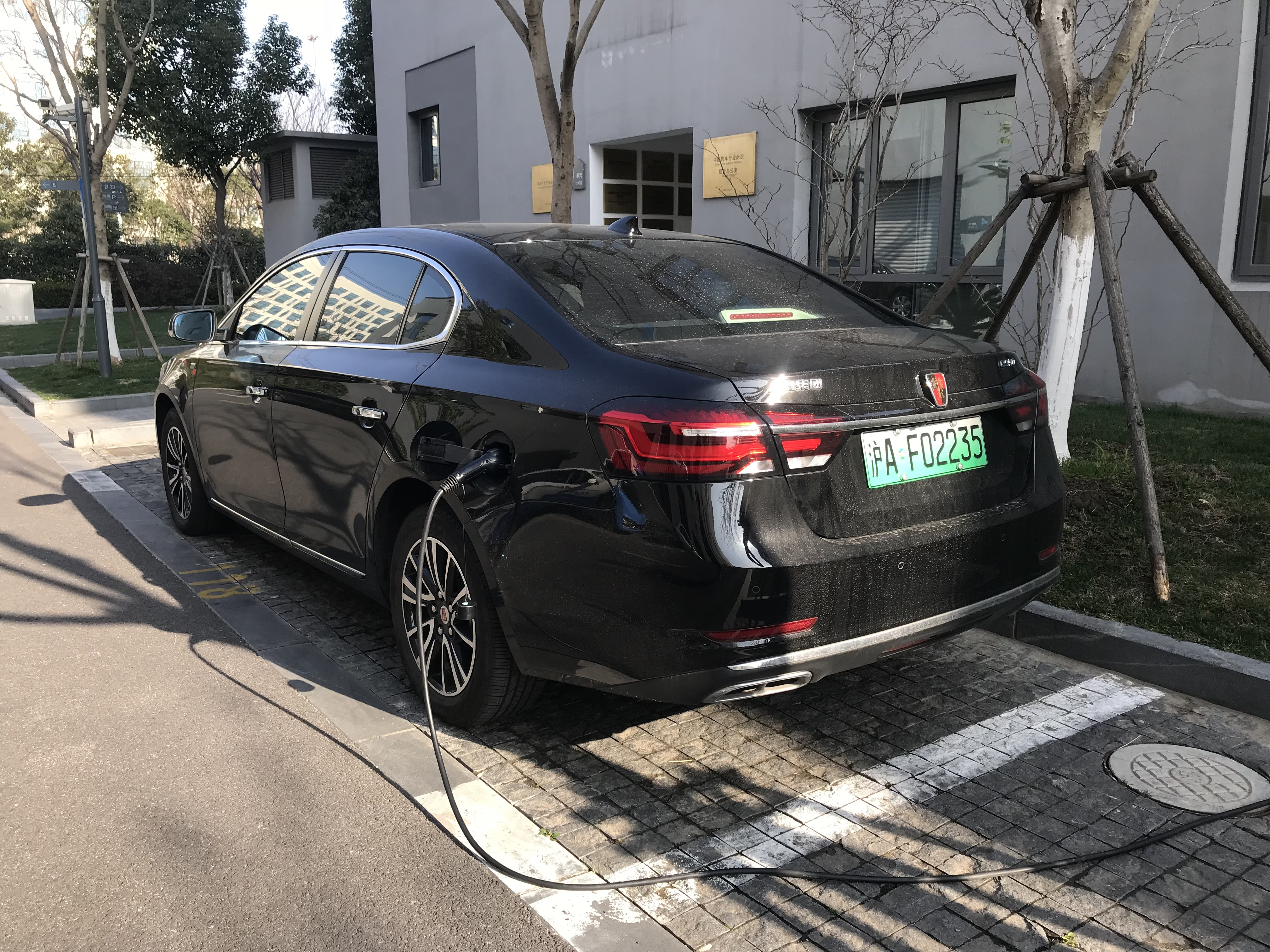 Roewe e950 rear Identical to the post facelift Roewe 950.